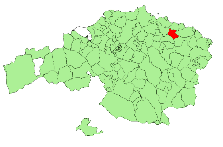 Ereño municipality in the province of Biscay